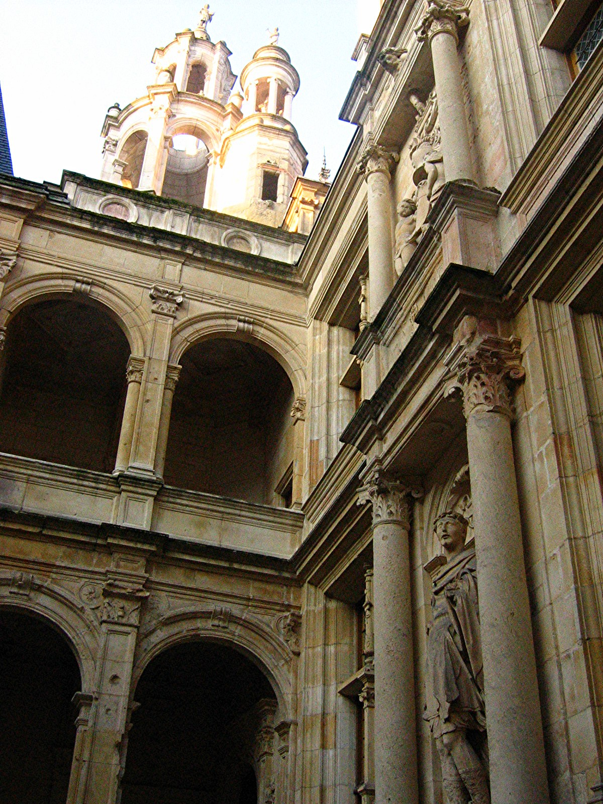 Courtyard of the Hôtel d'Escoville, in Caen.